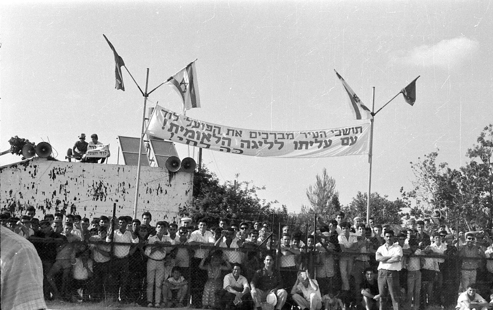 Sports in Israel